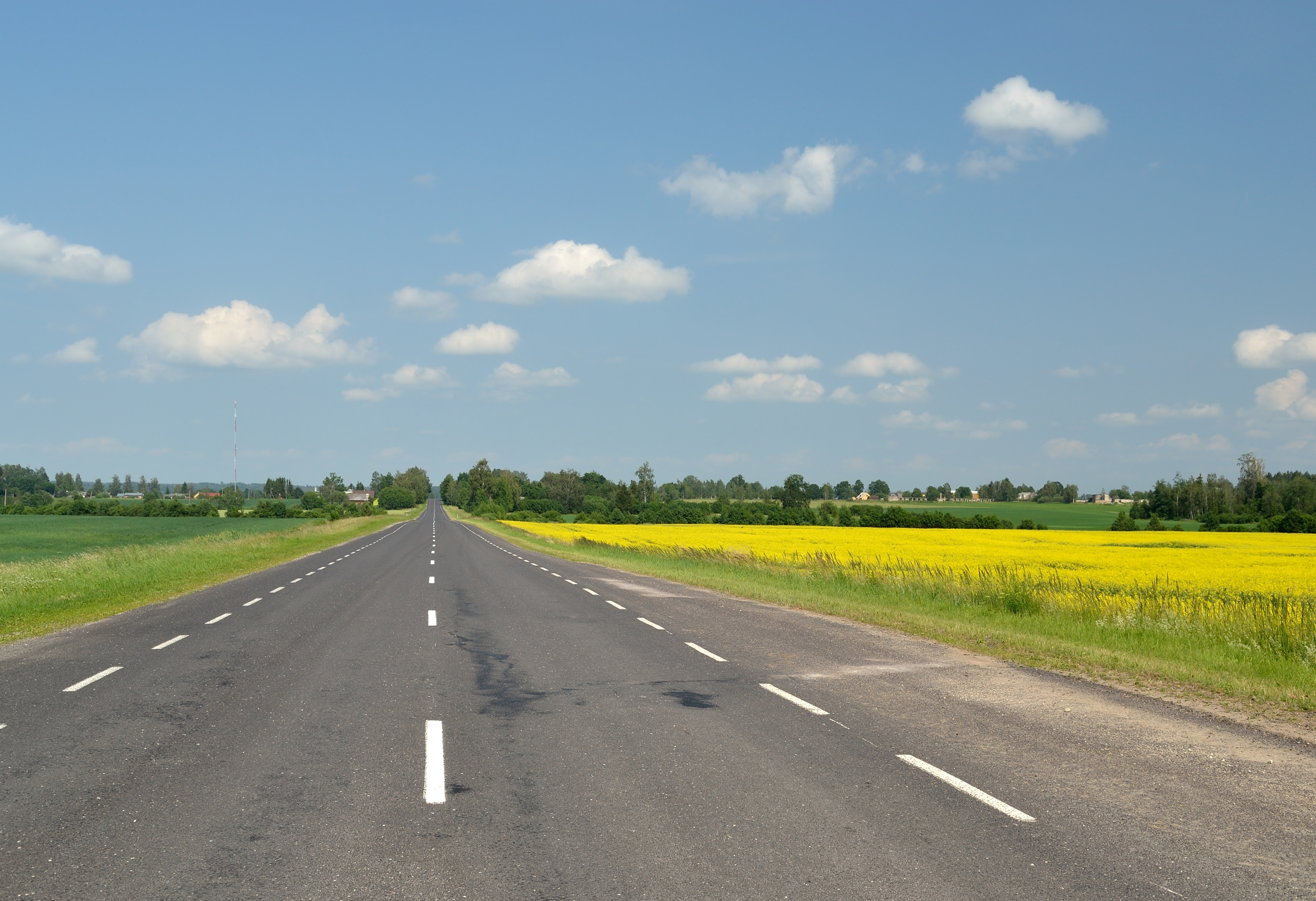 Sultsi-Abja-Paluoja road in Toosi village